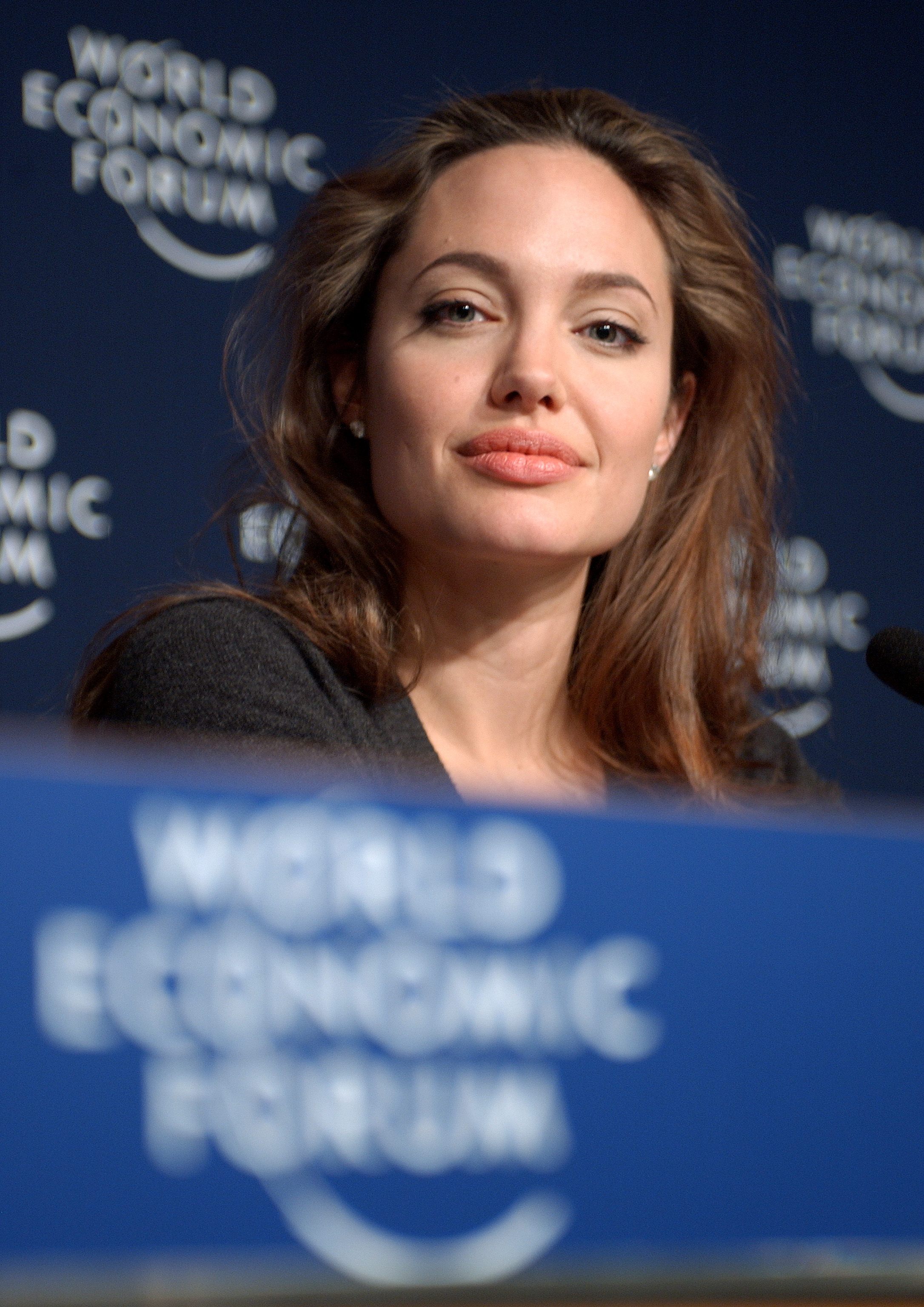 DAVOS/SWITZERLAND, 29JAN05 - Angelina Jolie, Goodwill Ambassador, United Nations High Commissioner for Refugees (UNHCR), Geneva, captured during a Press Conference at the Annual Meeting 2005 of the World Economic Forum in Davos, Switzerland, January 29, 2005. Copyright World Economic Forum ( by Remy Steinegger